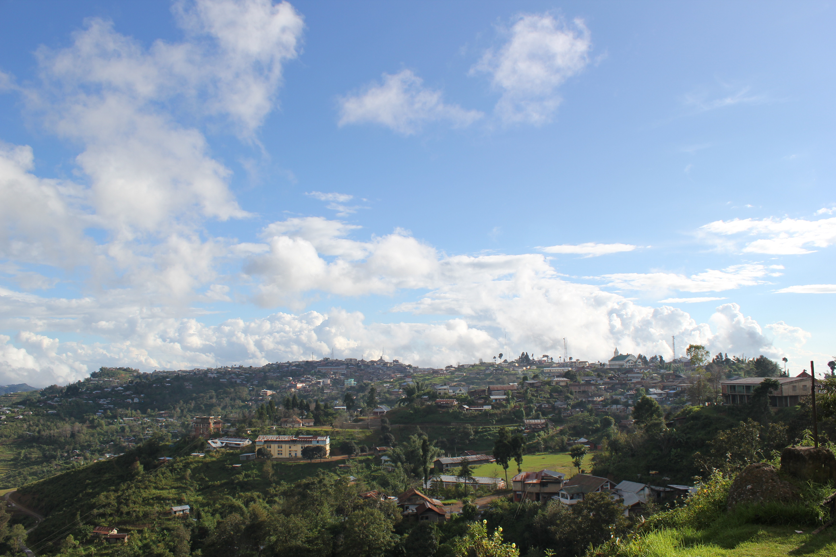 Ukhrul town seen from "view point" near Savio high school